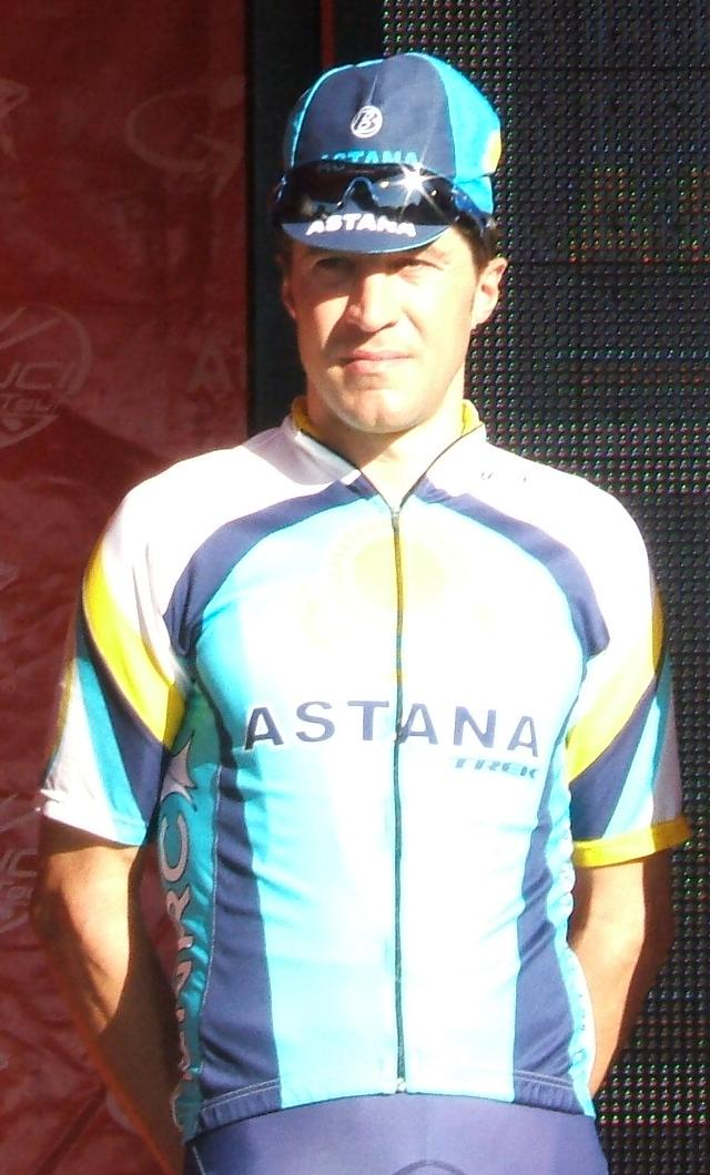 Named cyclist at the en:2009 Tour Down Under team presentation